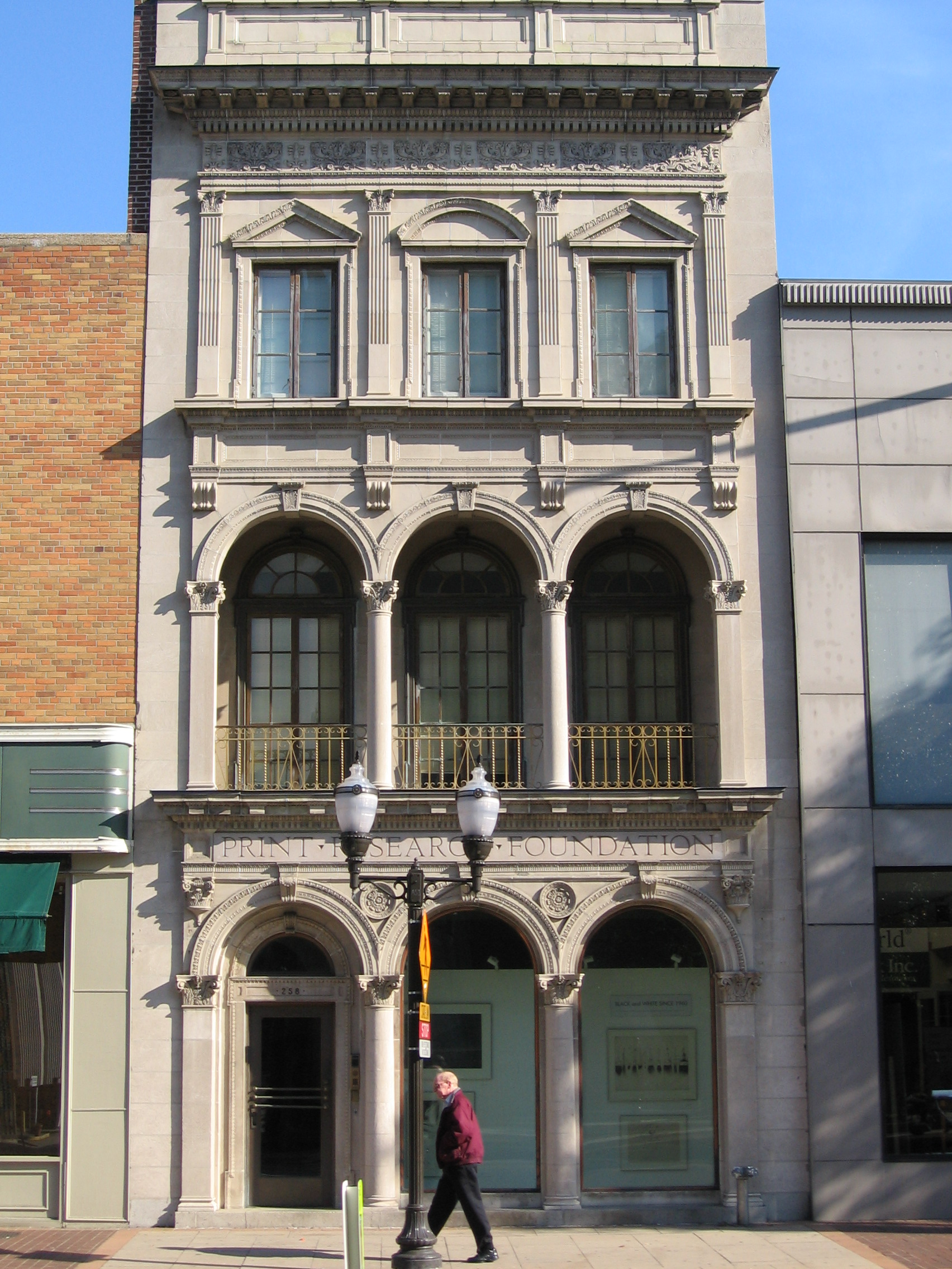 Former Stamford Advocate building at 258 Atlantic St., Downtown Stamford, Connecticut, now occupied (since 2002) by the Print Research Foundation. The building is on the west side of Atlantic Street, across the street from St. John Roman Catholic Church.